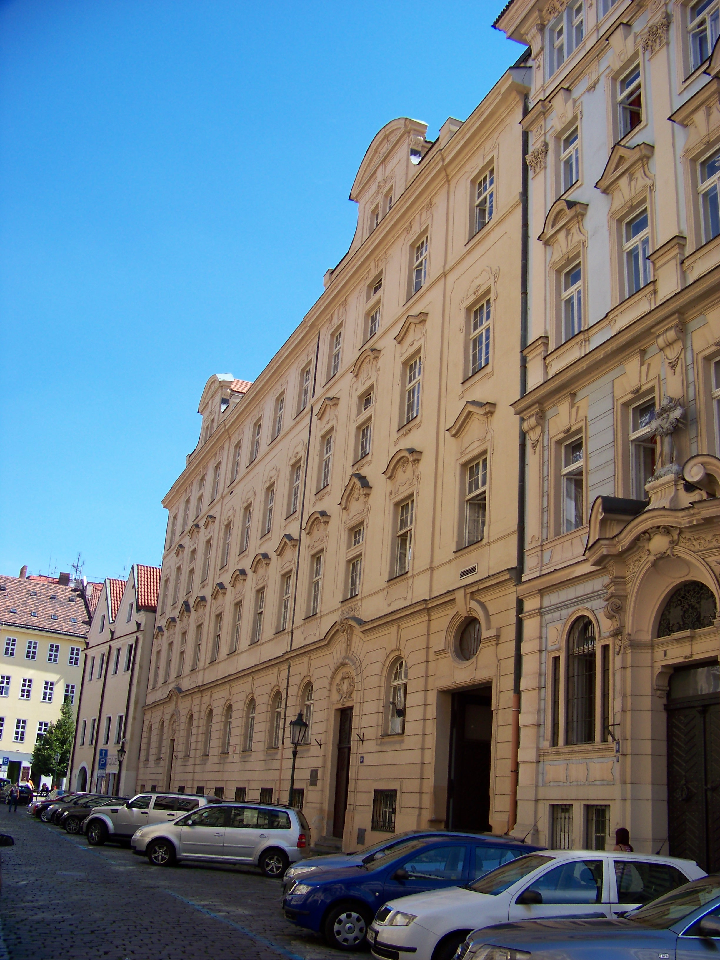 Prague-Old Town, the Czech Republic. Konviktská 292/22.